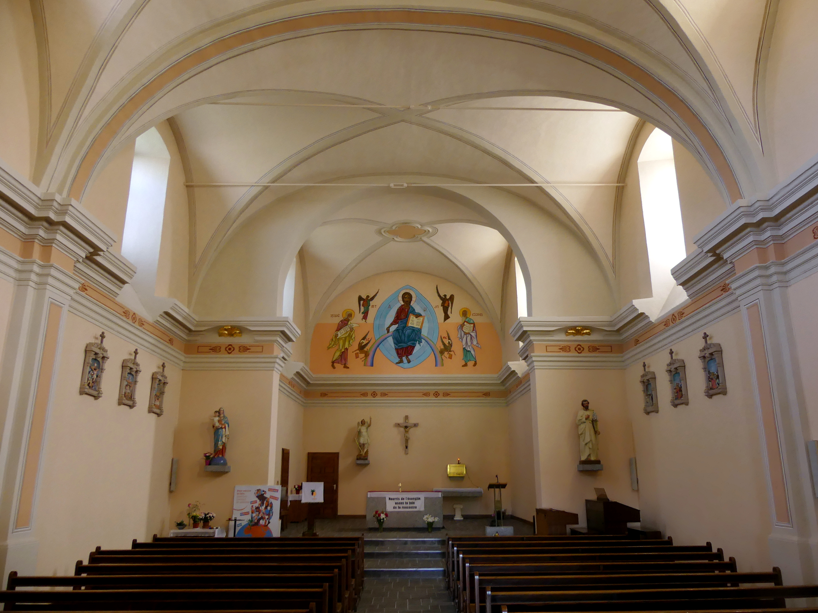 Inside sight of the église Saint-Michel church and its choir, in Thollon-les-Mémises village, Haute-Savoie, France.